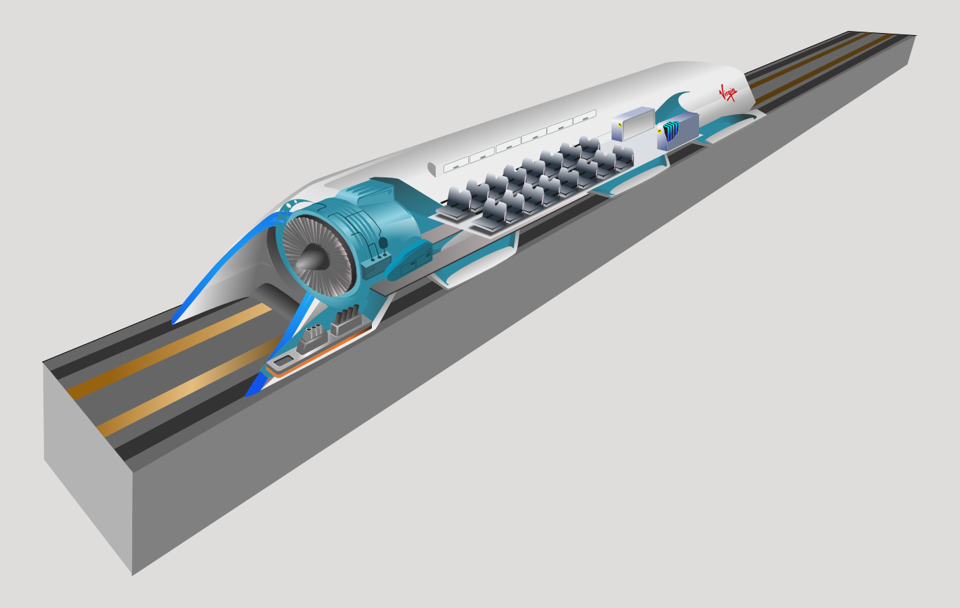 Concept art of Hyperloop inner works